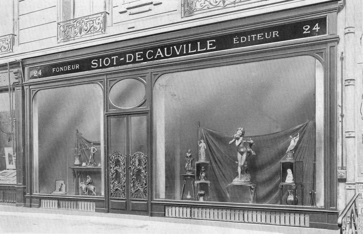 Siot-Decauville Store, 24 boulevard des Capucines in Paris, in 1909.